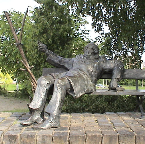 Statue – Imre Varga: Lőrinc Szabó, hungarian poet. Miskolc, Hungary